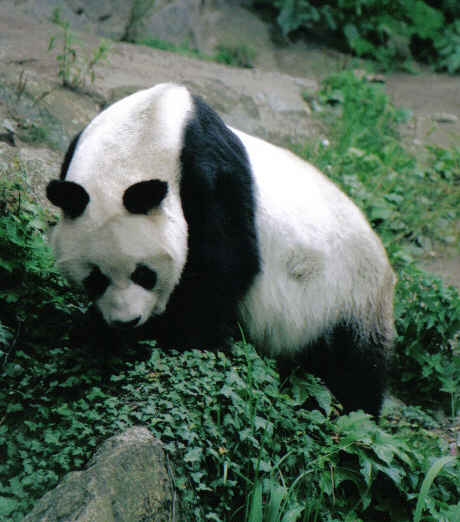 Bao Bao (* 1978) is a male Giant Panda (Ailuropoda melanoleuca), who lives in the Berlin Zoo. He is the eldest known Giant Panda in a zoo.